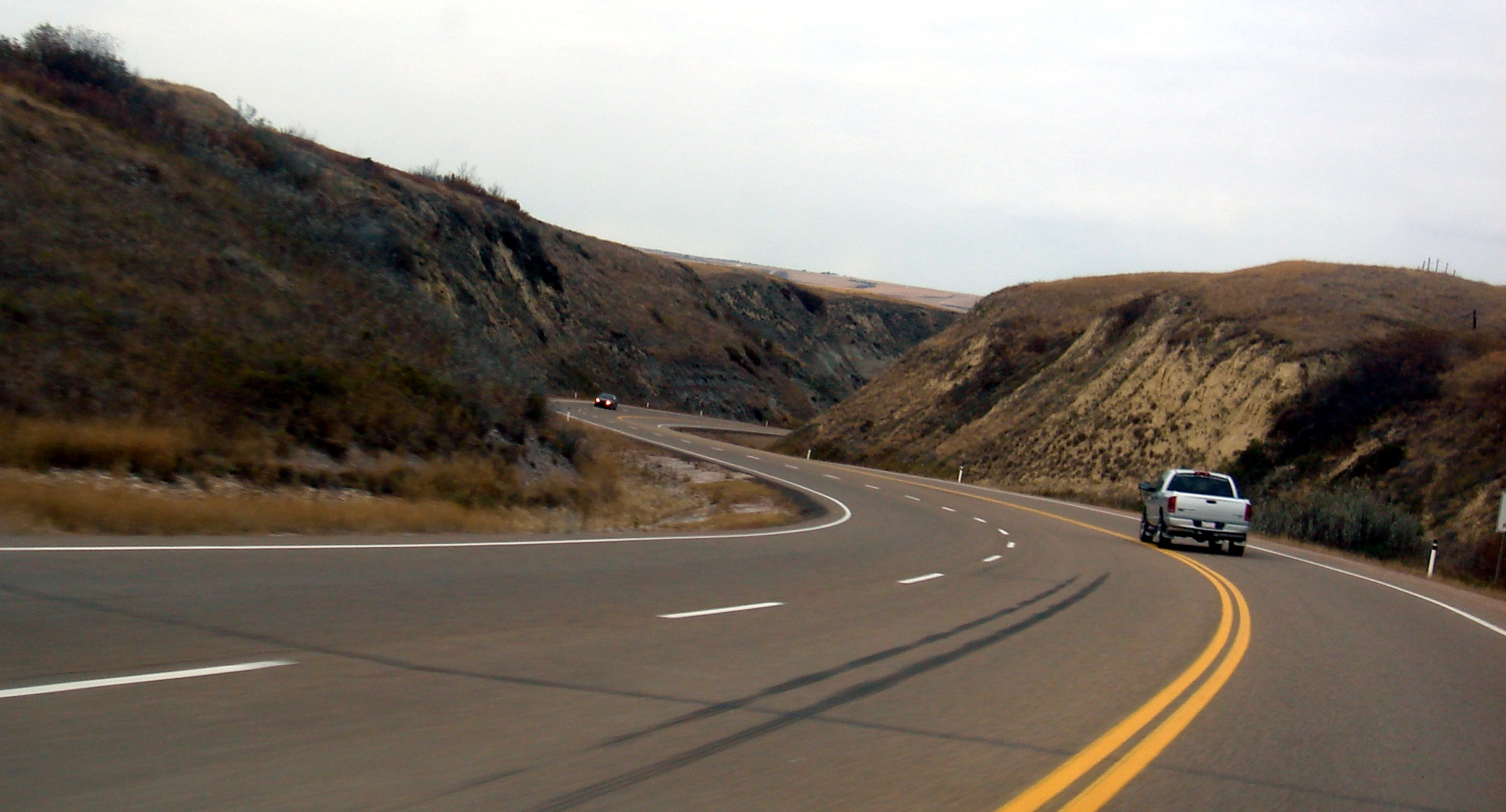 Highway 9 north of Drumheller, Alberta, Canada